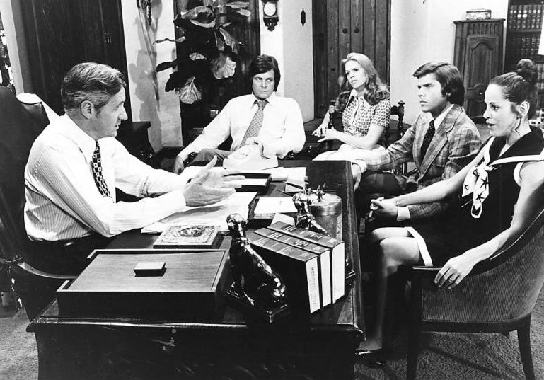 Photo from the television program Owen Marshall:Counselor at Law. Arthur Hill (seated at desk) is Owen Marshall. His clients from left are: Michael Witney (was married to Twiggy), Sharon Gless, John Davidson and Louise Sorel.